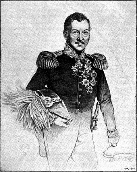 Karl Wilhelm Eugen von Freydorf (1781–1854); Minister of War of the Grand-Duke of Baden